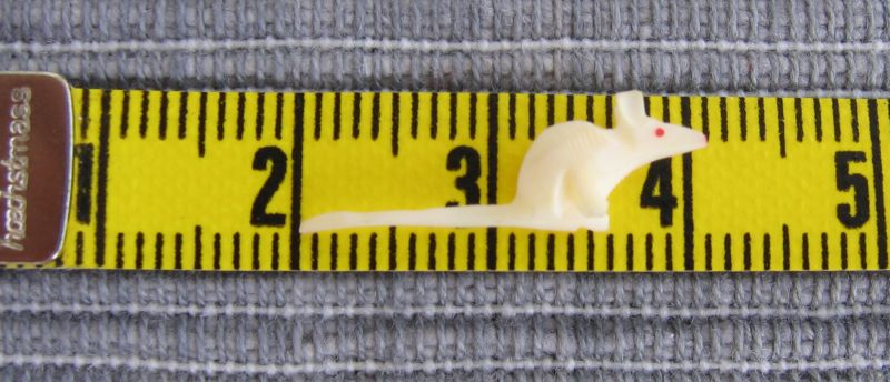 Scrimshaw, Germany about 1960